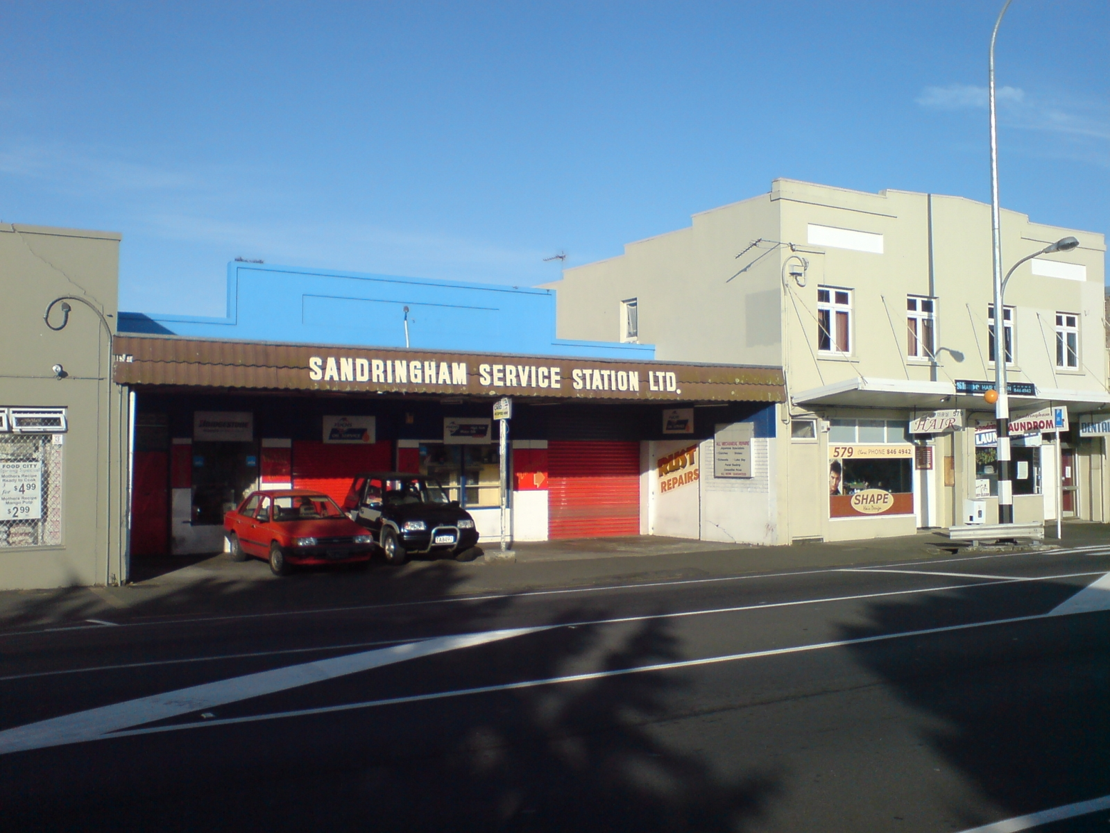 Part of the Sandringham Shops area, in Sandringham, Auckland, New Zealand. Looking southwest in the "kink" section of the street.